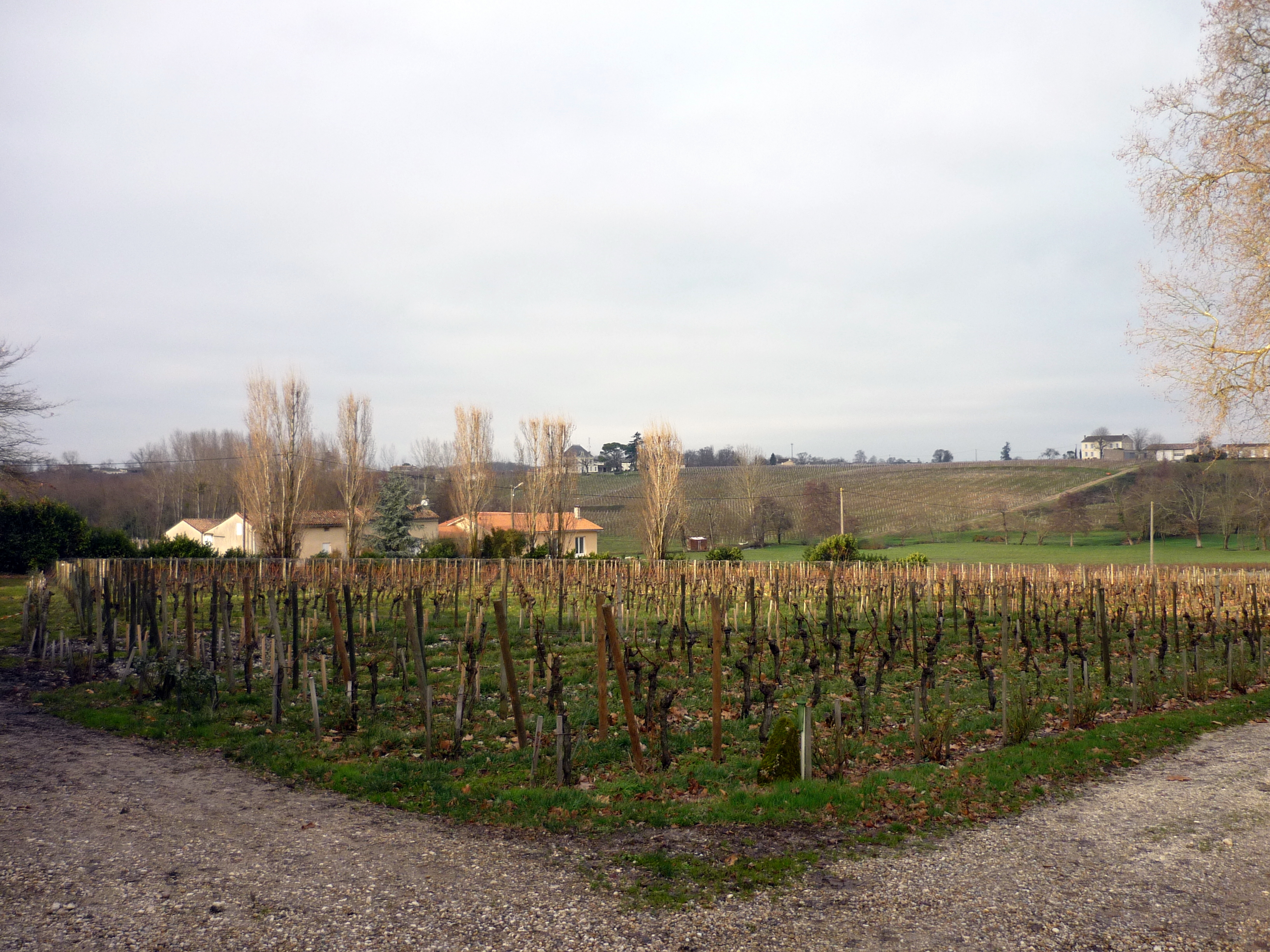 Vineyards of Pomerol winery Château Gazin located in the right bank of the French wine region of Bordeaux.